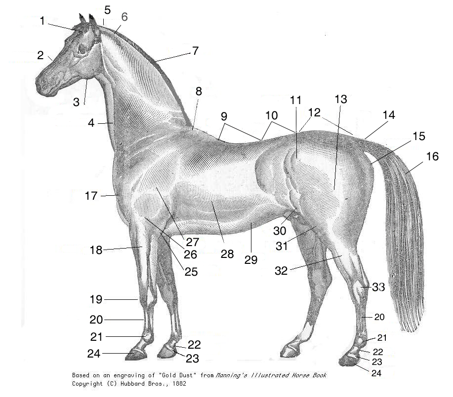 Horse parts numbered